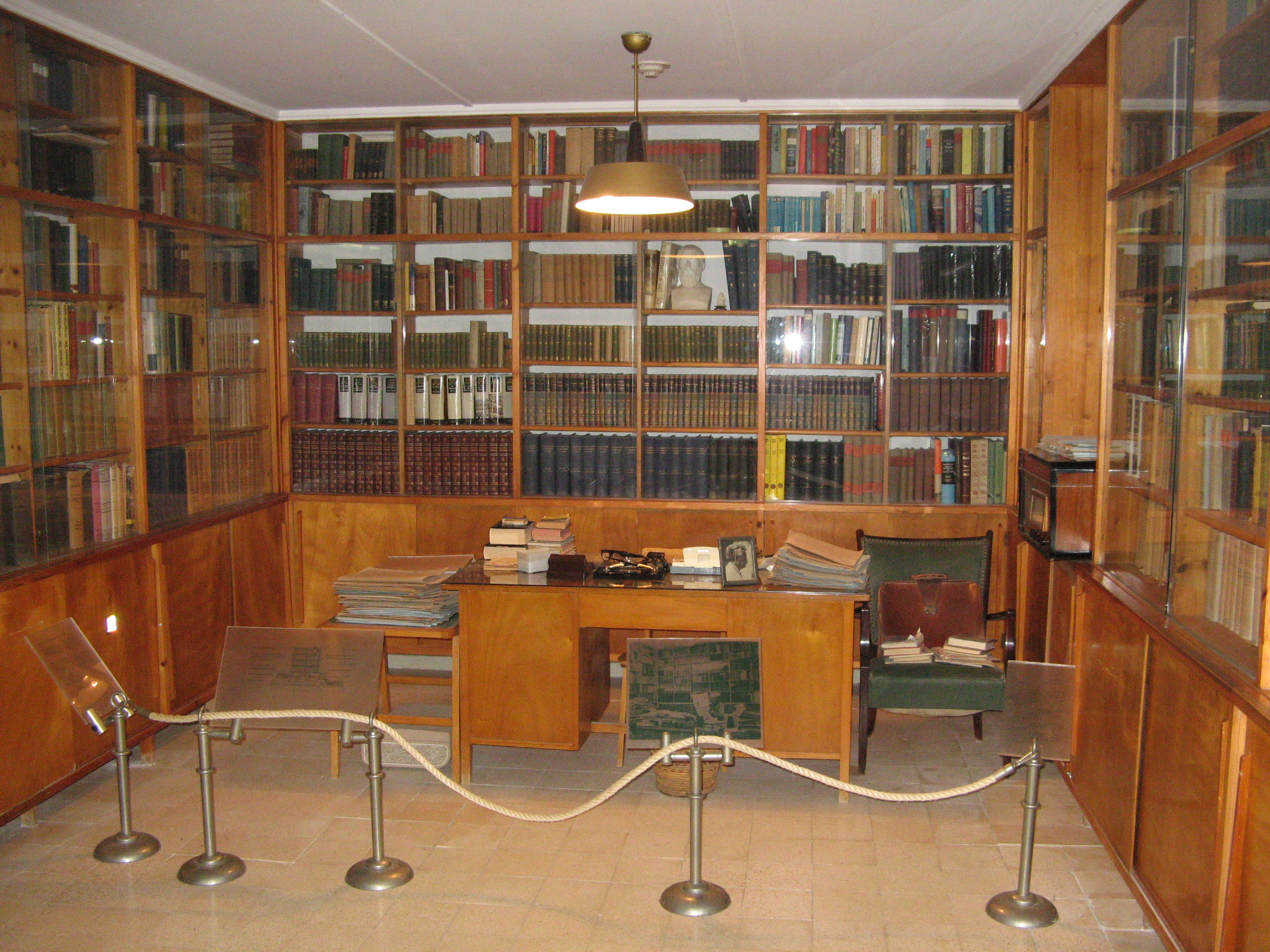 The Study in David Ben Gurion's Sdeh Boker shack